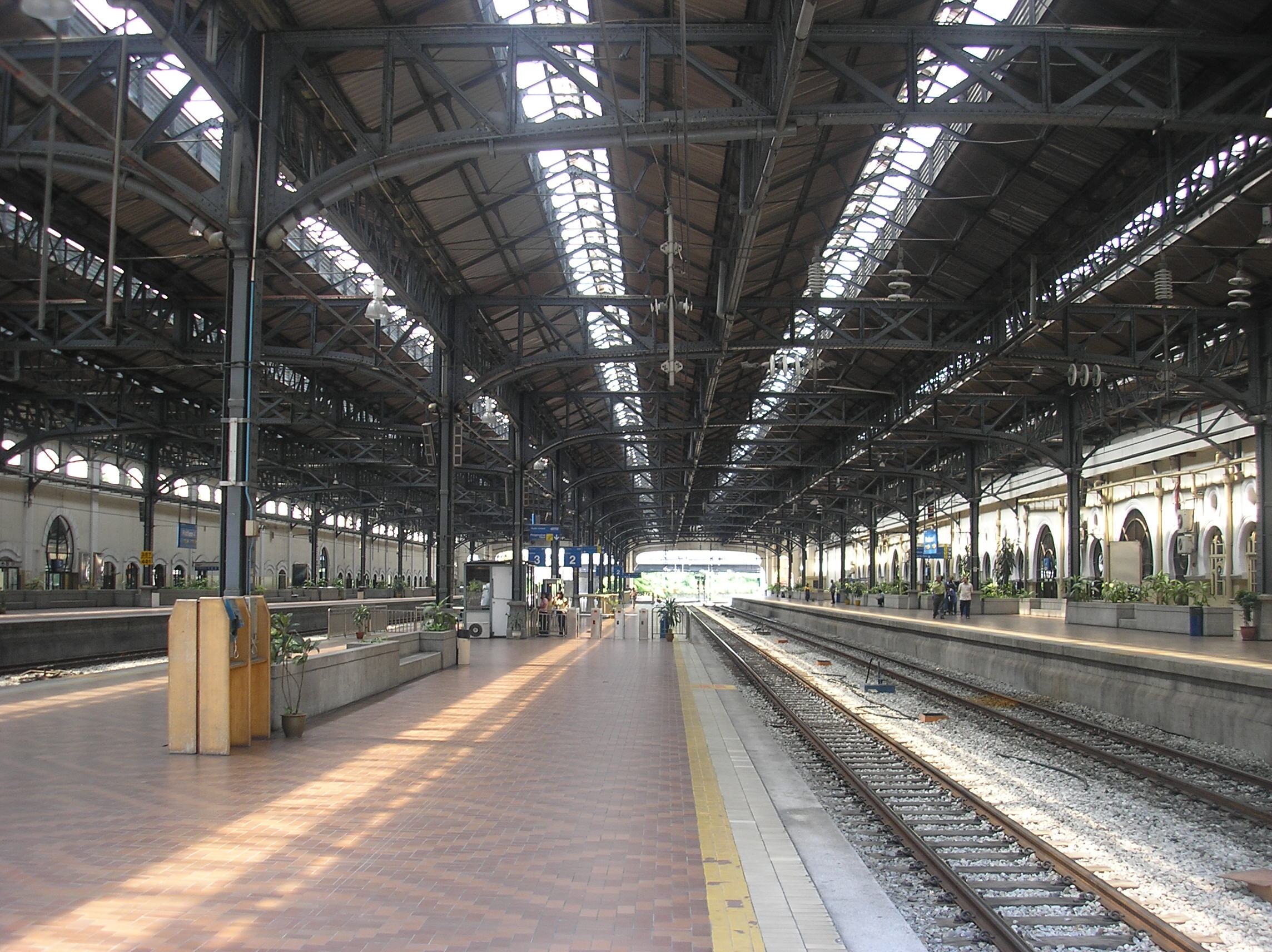 The original platforms at the Kuala Lumpur railway station (Rawang-Seremban/Sentul-Port Klang), Kuala Lumpur, Malaysia.